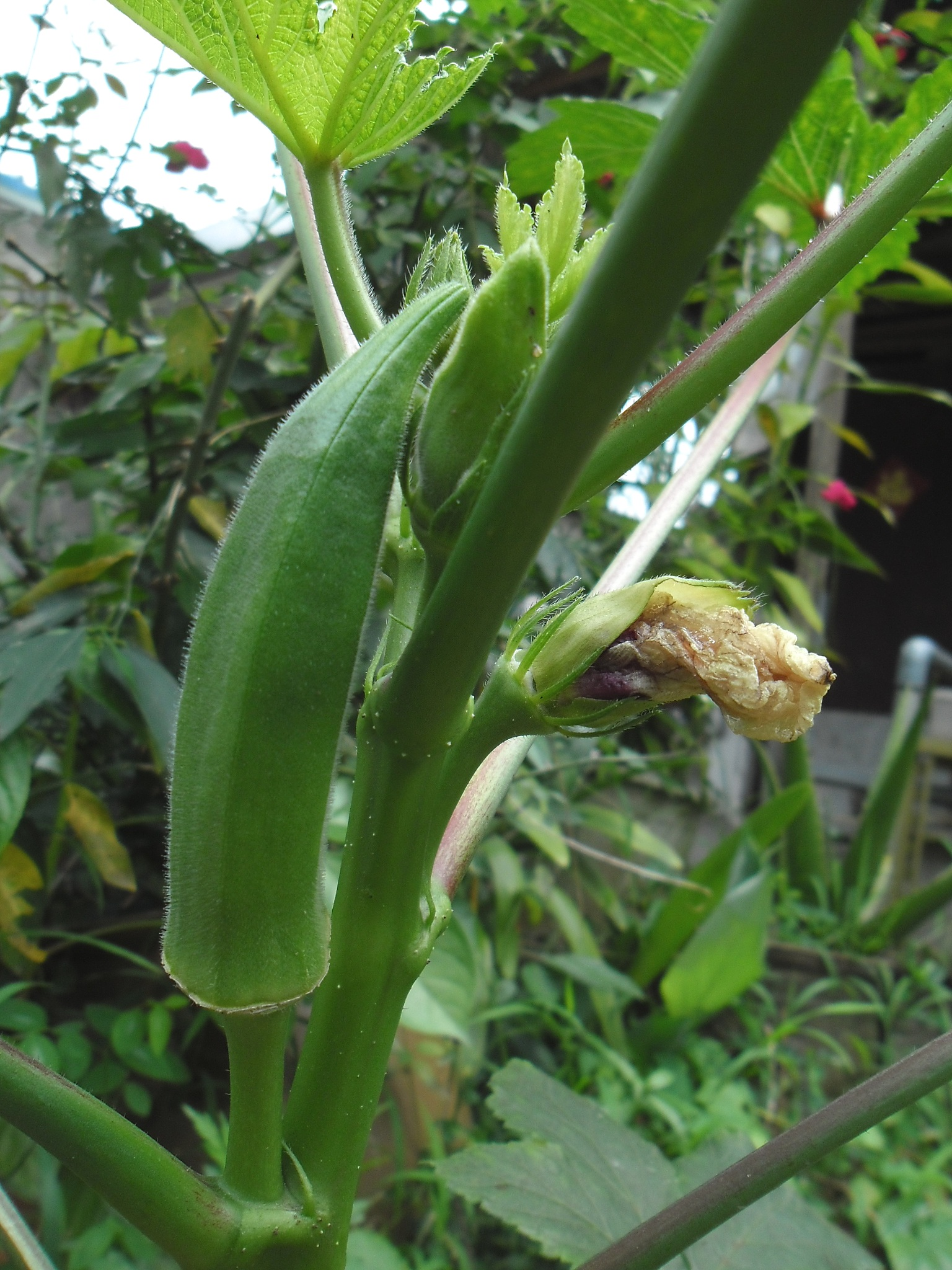 Earth100's Okra Plant, with a fruit and dying flower, growing in Hong Kong, on August 28, 2012